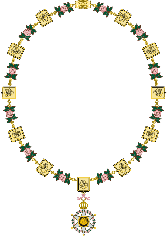 Collar of the Imperial Order of The Rose